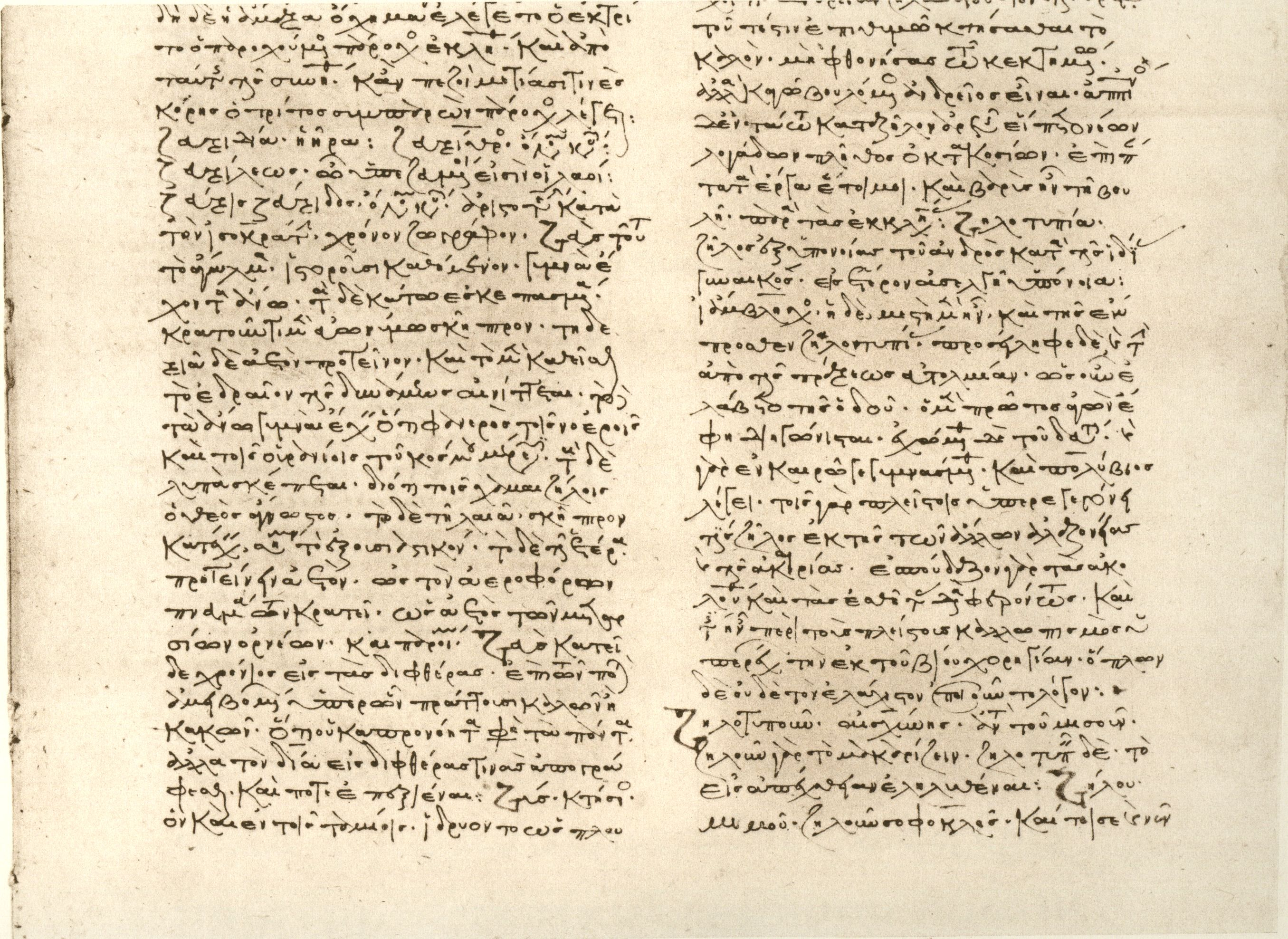 Suda in ms. Biblioteca Apostolica Vaticana, Vaticanus graecus 1296, fol. 193r.